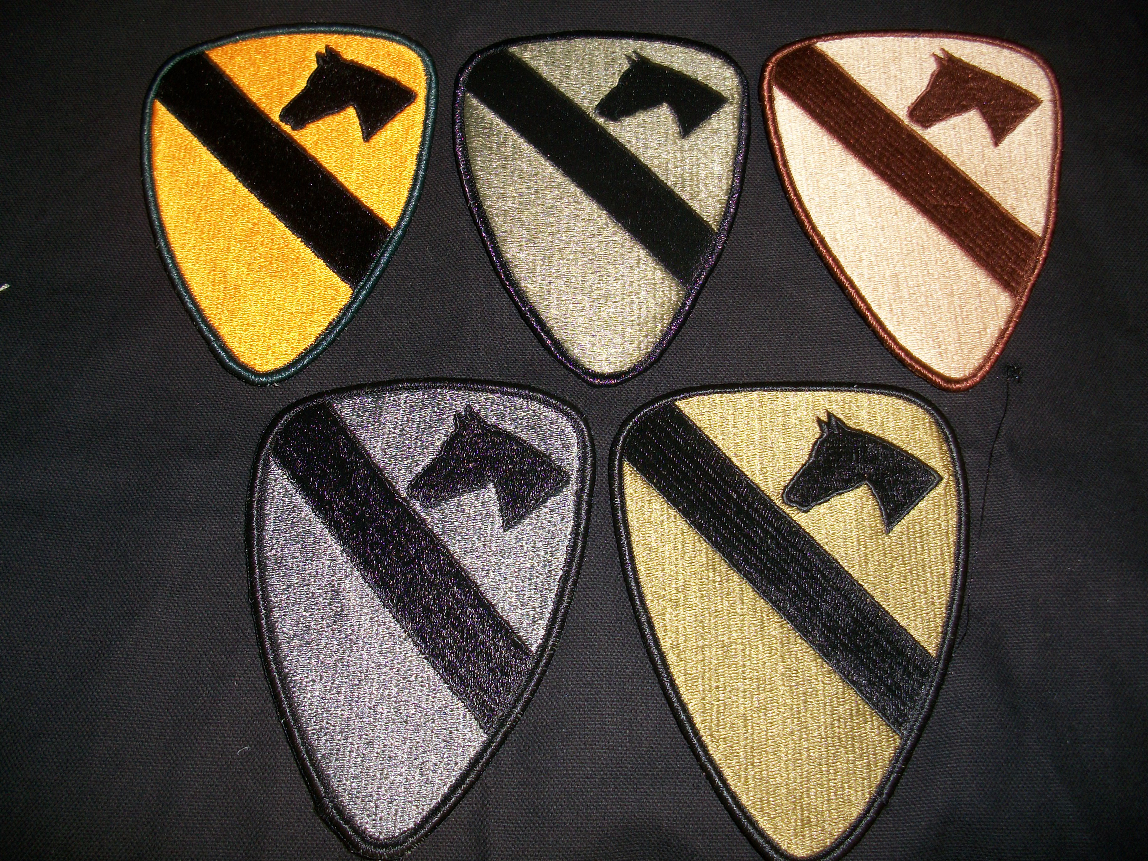 The image consists of 5 authorized variations of the shoulder sleeve insignia of the 1st Cavalry Division. The five patches are property of the United States Government and their images are releasable as public domain.